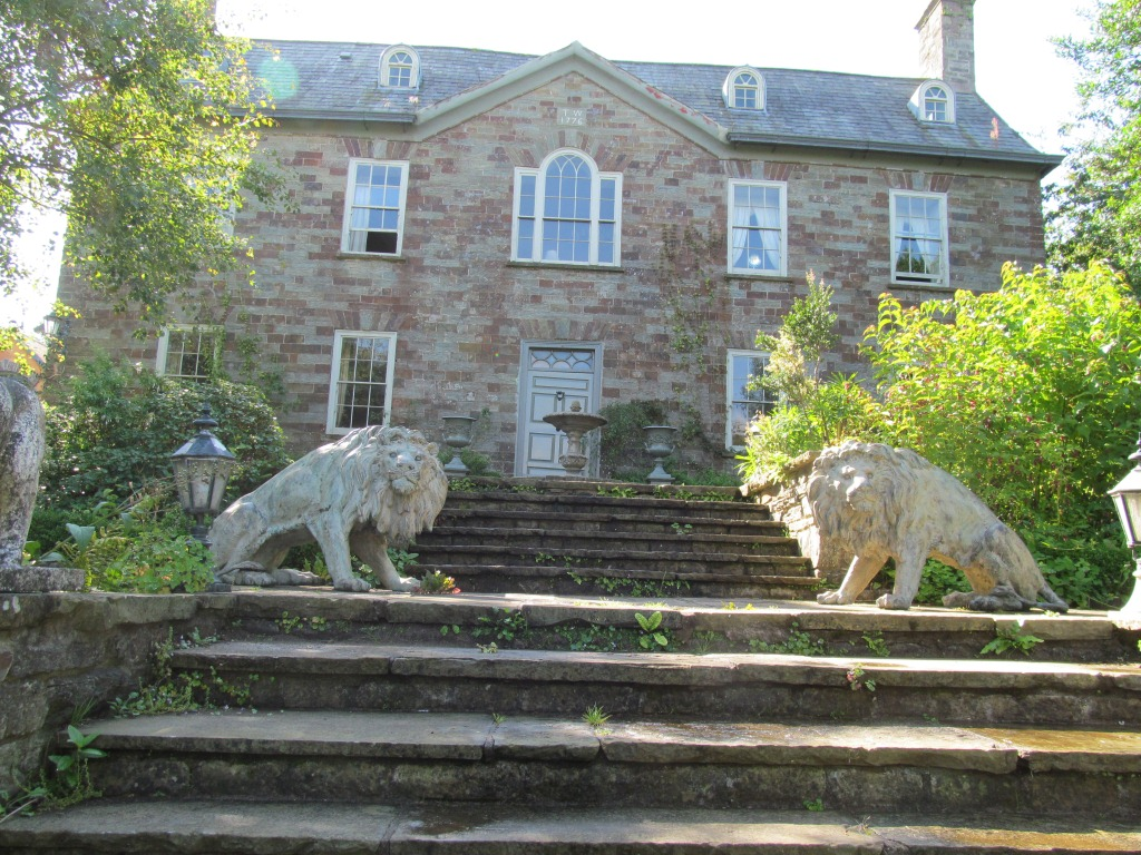 Walton Court, 1776 facade, Oysterhaven, County Cork, Ireland, now a country house hotel